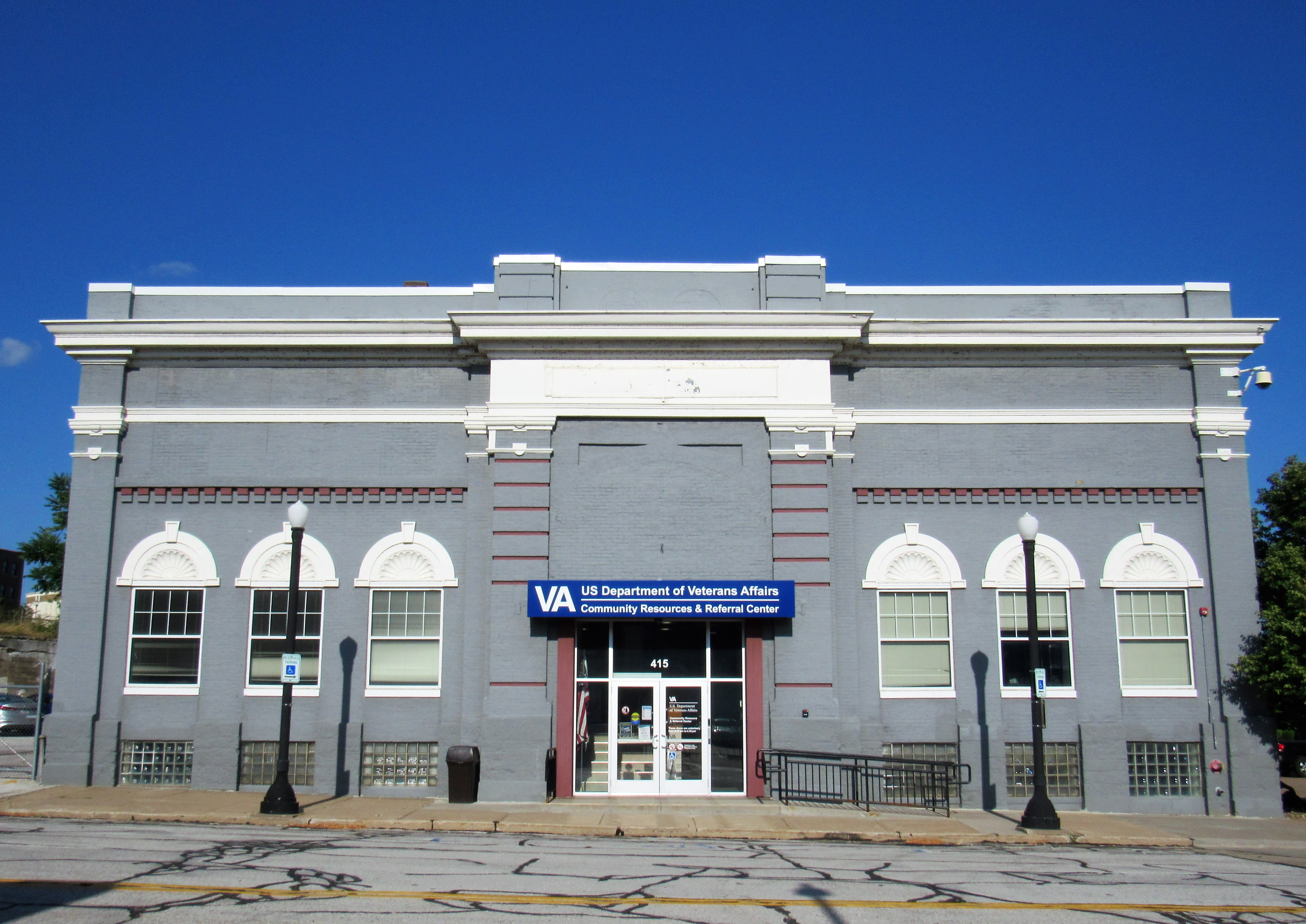 The building that was once the Burtis Opera House is located in downtown Davenport, Iowa. It severally damaged in a fire in the 1920s and rebuilt to its current appearance.